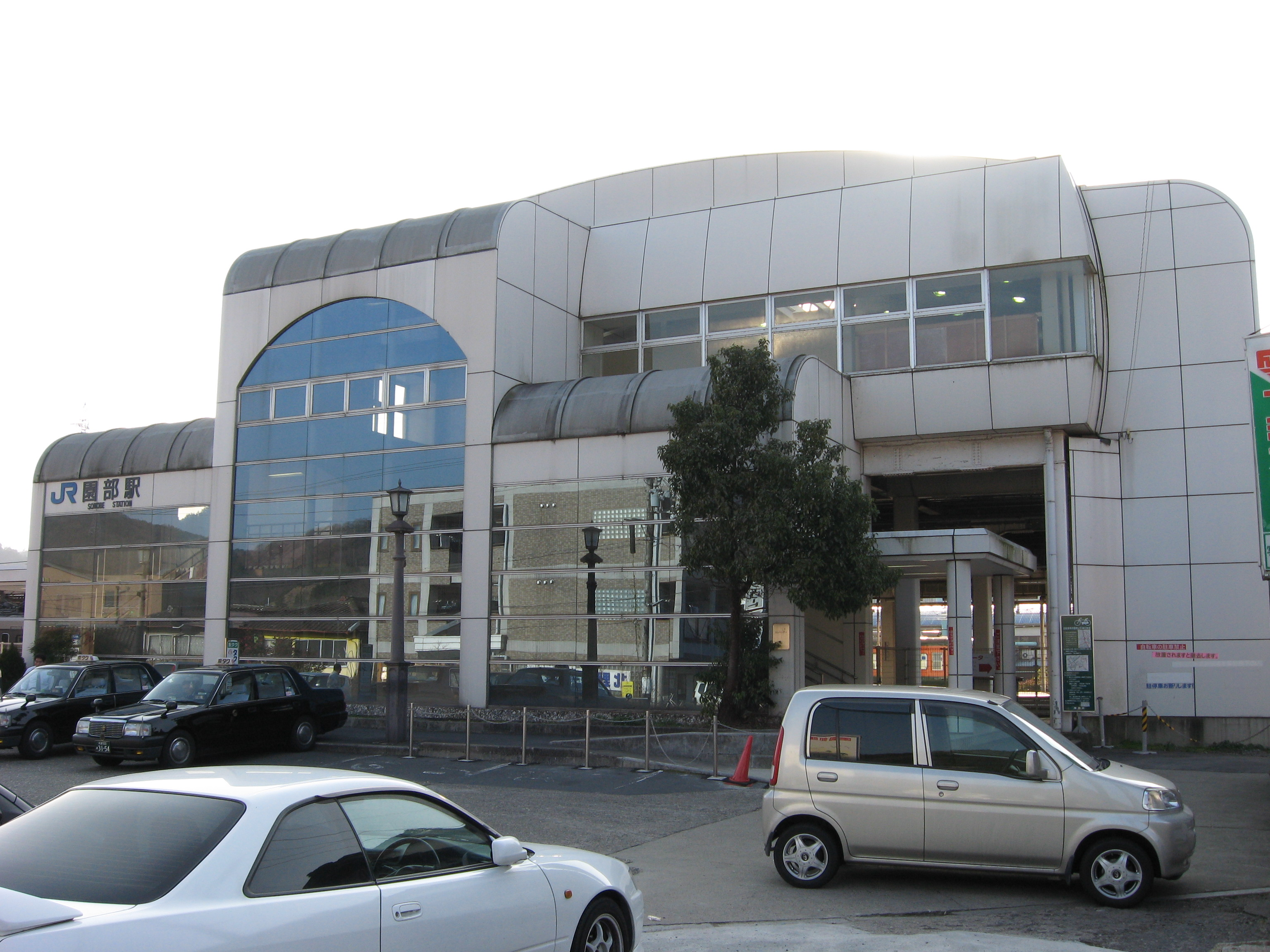 JR Sonobe Station East Gate